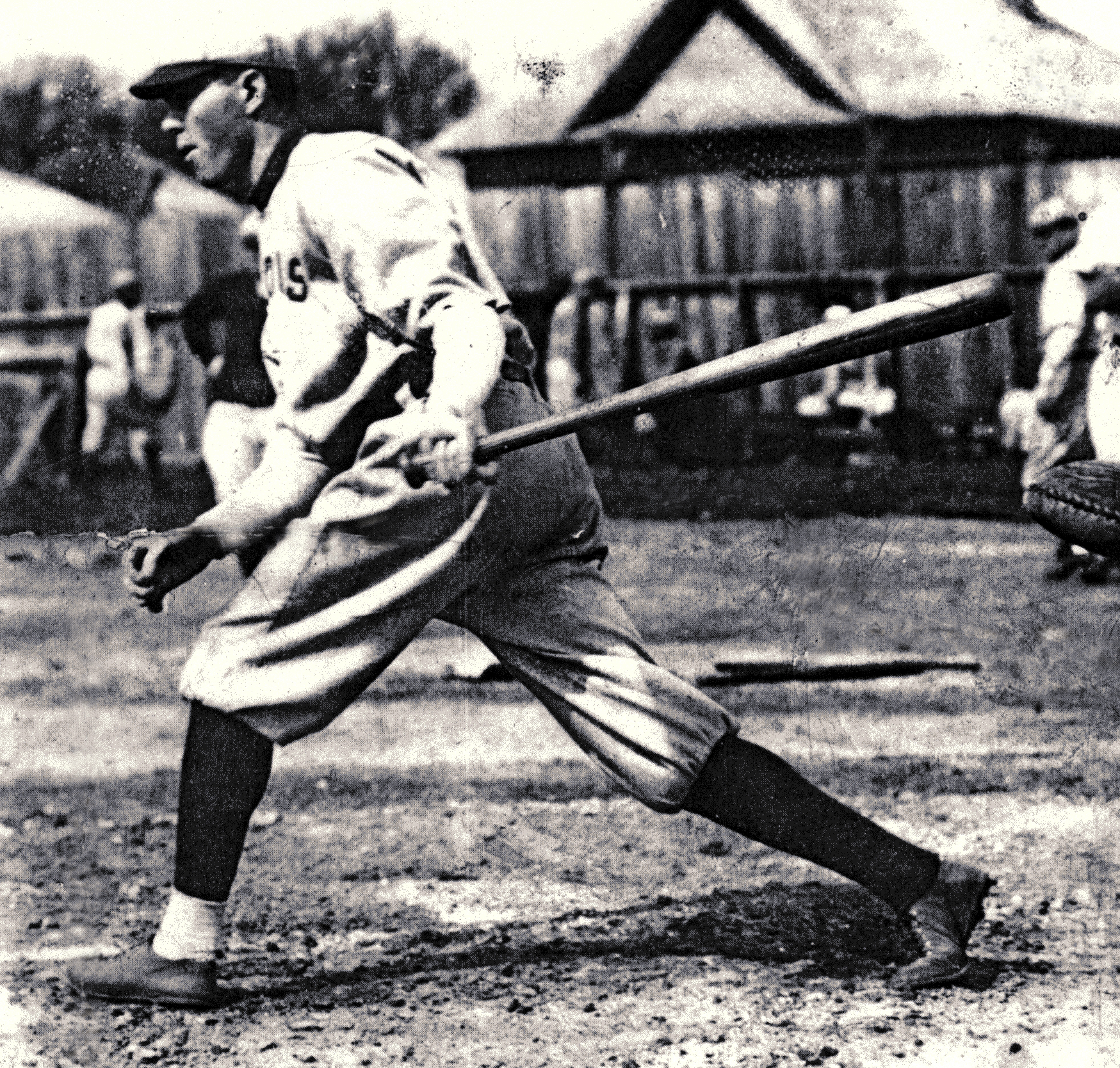 Frank Crossin as a member of the MLB St. Louis Browns during spring training in St. Petersburg, Florida.